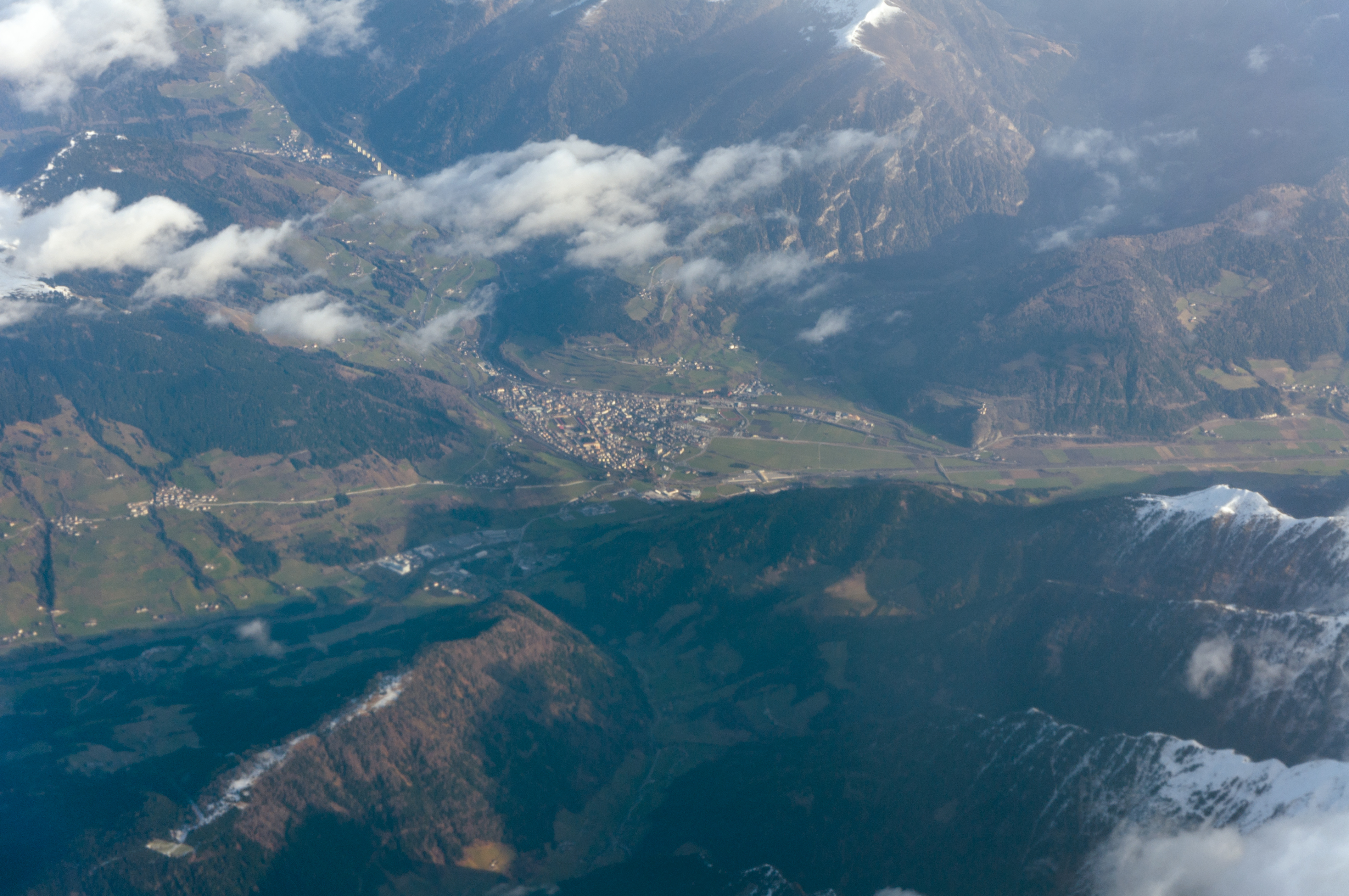 Italy, flight across the Italian alps